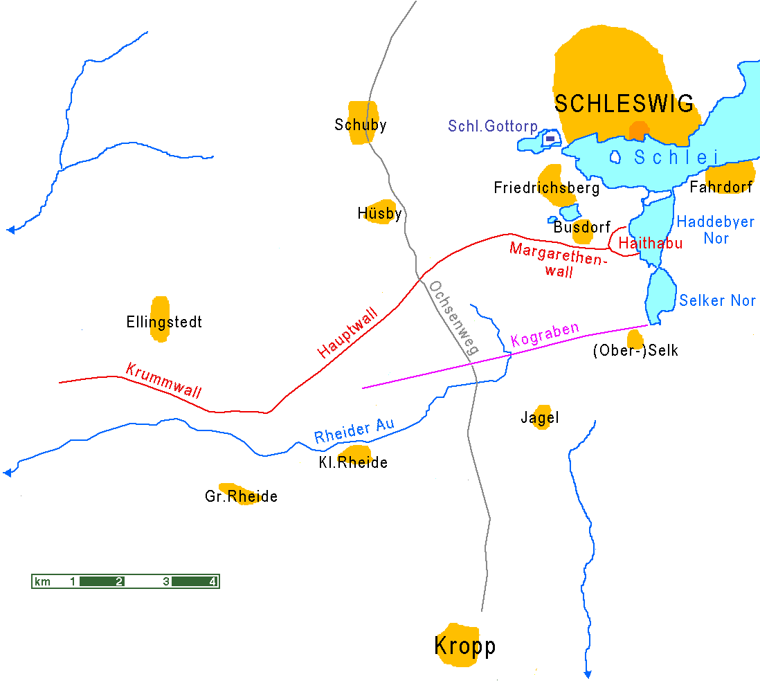 map Schleswig, Haithabu (Hedeby), and the various parts of Danewerk (Danevirke), exact drawing , derived from a topographic map.